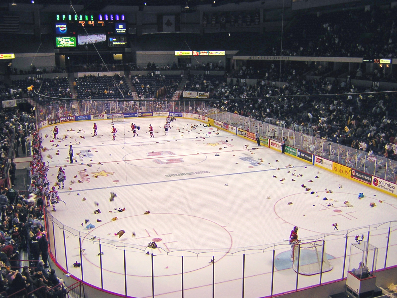 Inside the Spokane Arena on Teddy Bear Toss Night. This is a photo I took myself. Feel free to use it in any way.